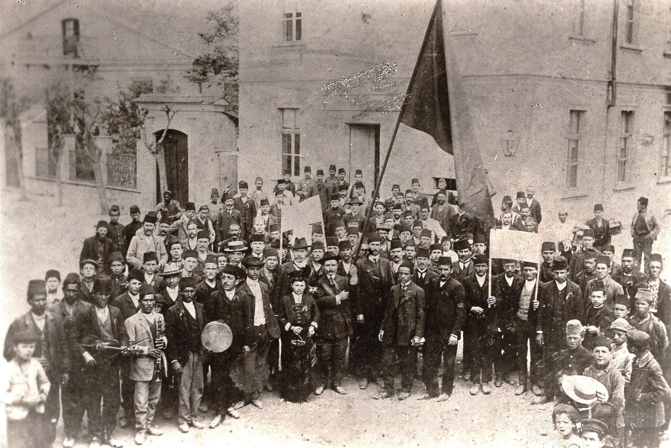 First celebration of 1st of May in the Ottoman Empire in Skopje, 1909 This media file is produced by Wikipedian in Residence in Category:Wikipedian in Residence at DARM in 2016.